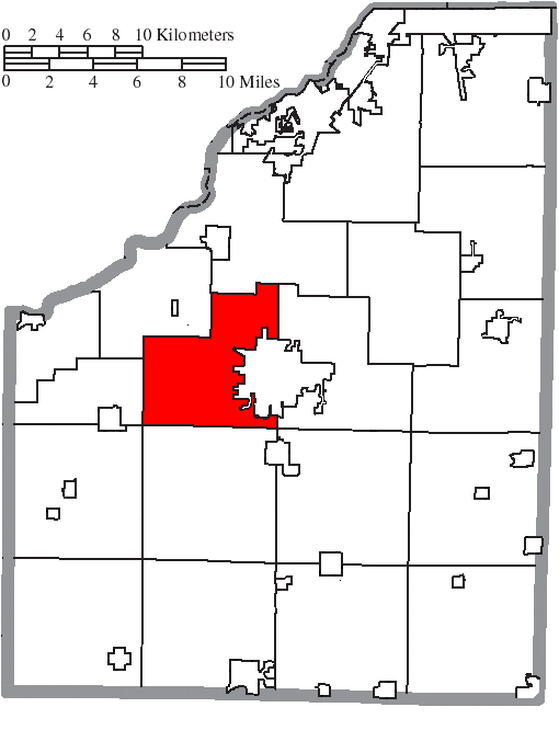 Map of the municipal and township boundaries of Wood County, Ohio, United States, as of the 2000 census, with the location of Plain Township highlighted. Township borders are shown only in unincorporated areas in order to differentiate incorporated and unincorporated areas more clearly.